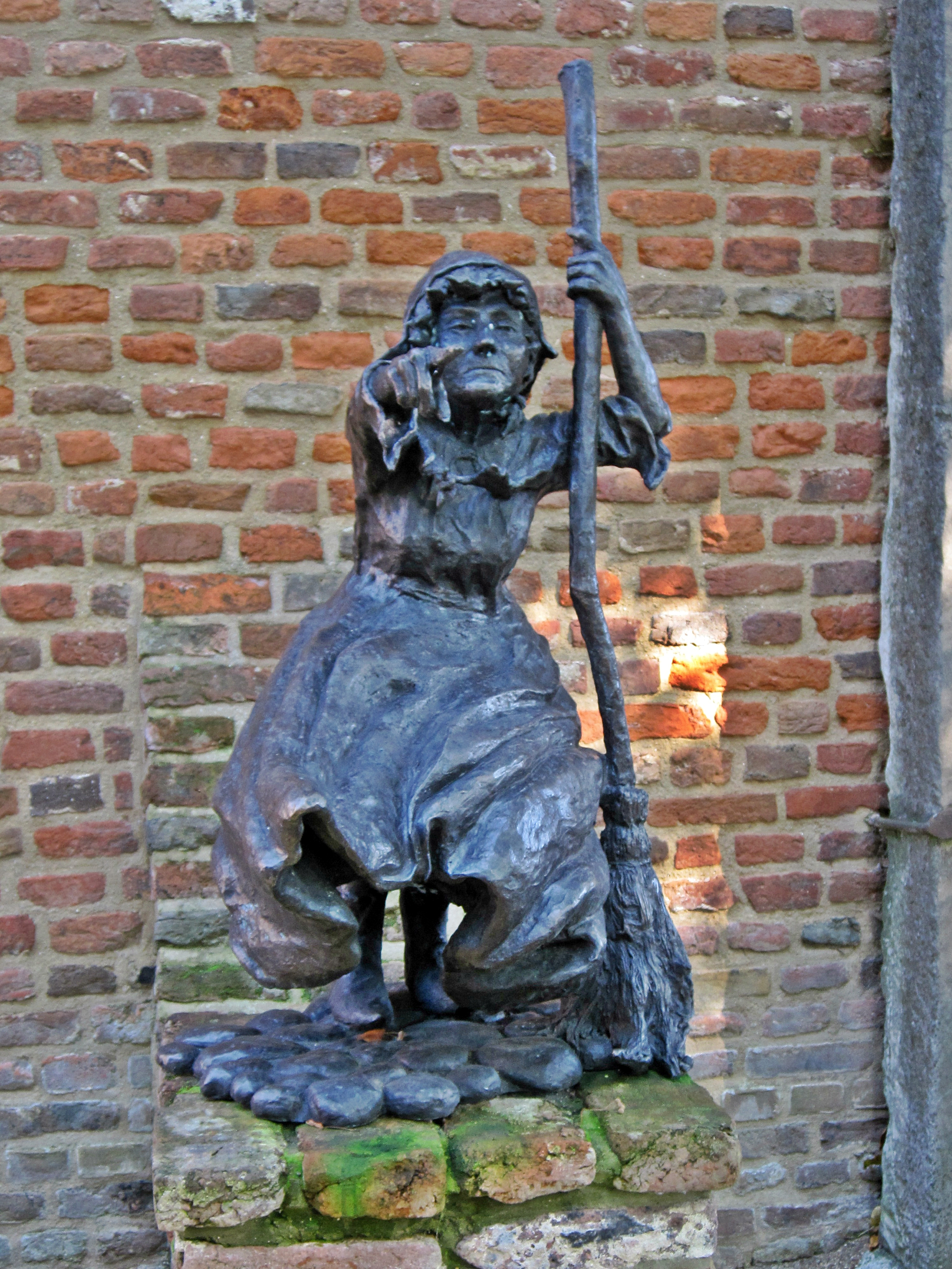 Sculpture 'De heks van 's-Heerenberg' by Patrick Beverloo, 's-Heerenberg, the Netherlands